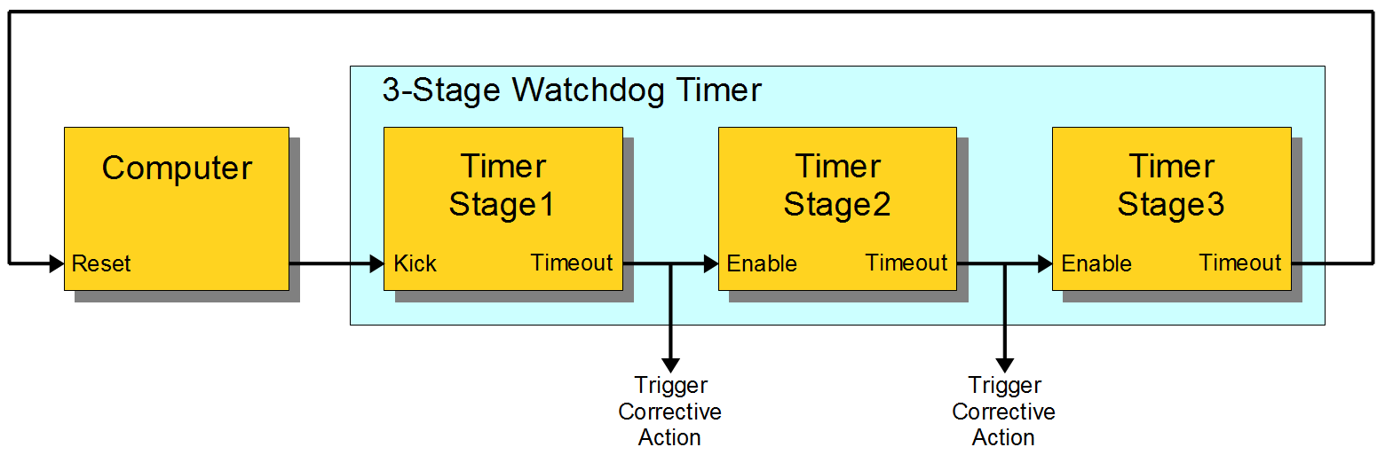 A three-stage electronic watchdog timer. Each stage triggers one or more corrective actions and starts the next stage. The final stage restarts the computer.